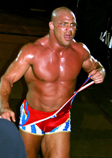 kurt leaving the ring after his match used on the website online world of wrestling for his profile pagehere.